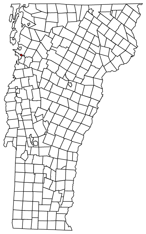 Description: Map of Vermont towns with Winooski highlighted Source: Map created by Jared C. Benedict on 26 March 2004. Copyright: © Jared C. Benedict.